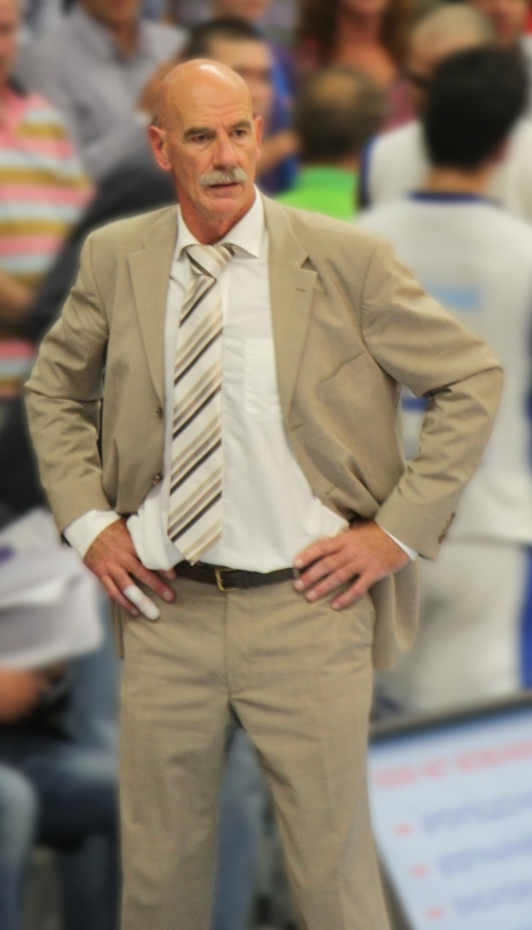 Toon van Helfteren, coach for Zorg en Zekerheid Leiden